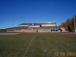 This is Vålehallen